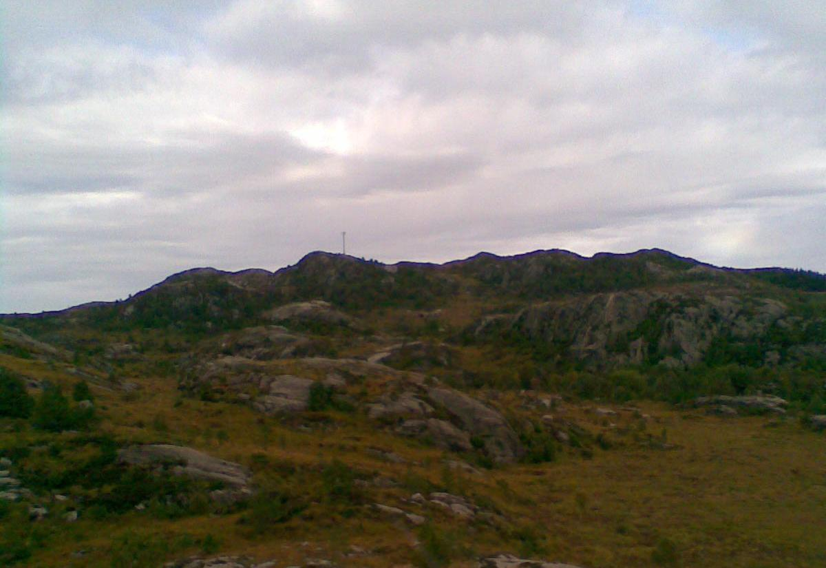 The picture is taken of Tveitfjellet (Sveio, Norway) from the south.